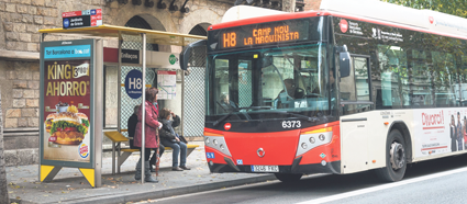 parked at station